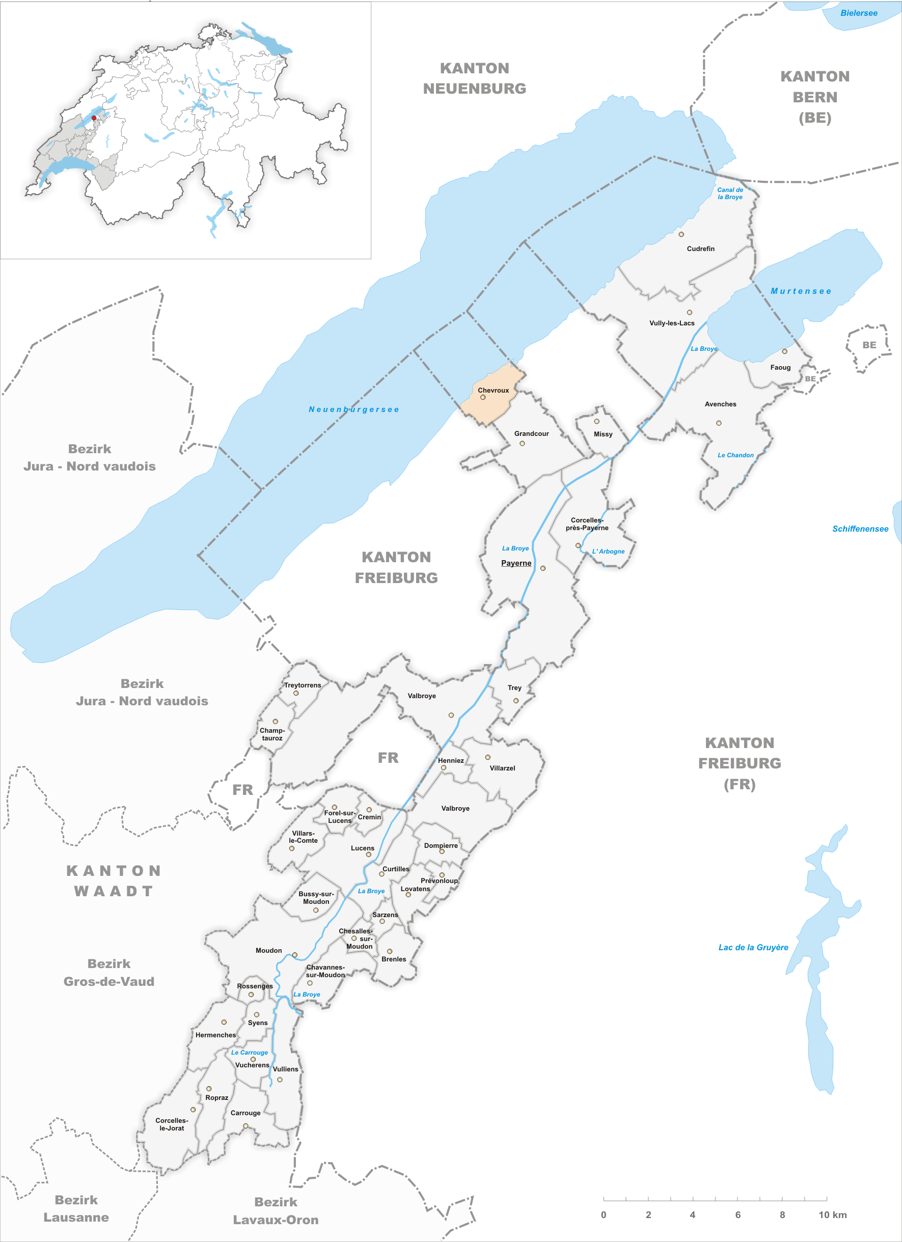 Municipality Chevroux